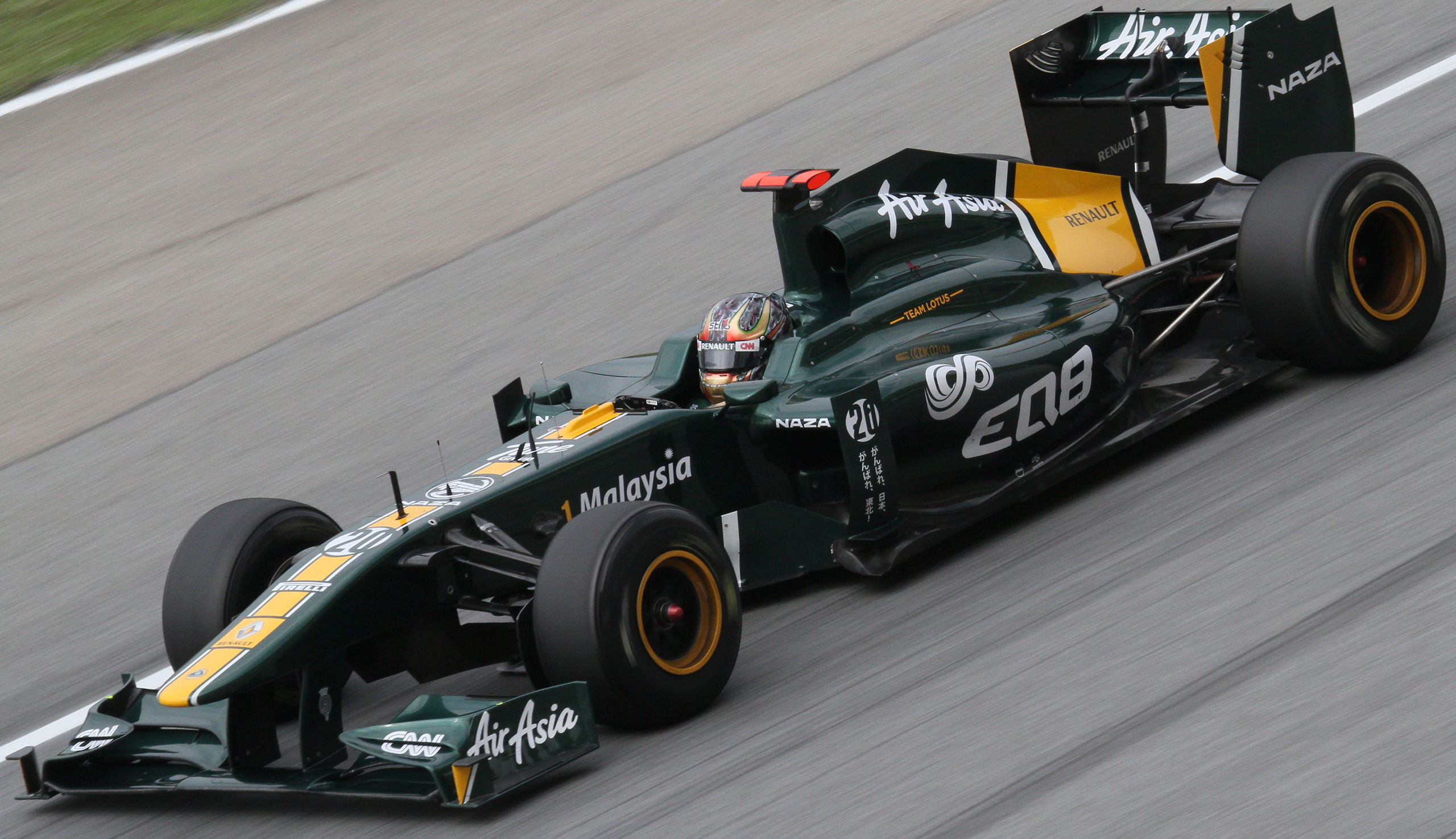 Formula One 2011 Rd.2 Malaysian GP: Davide Valsecchi (Lotus) during the first practice session on Friday.